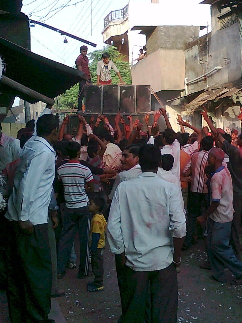 2014 general election BJP victory rally at Chinawal village, India